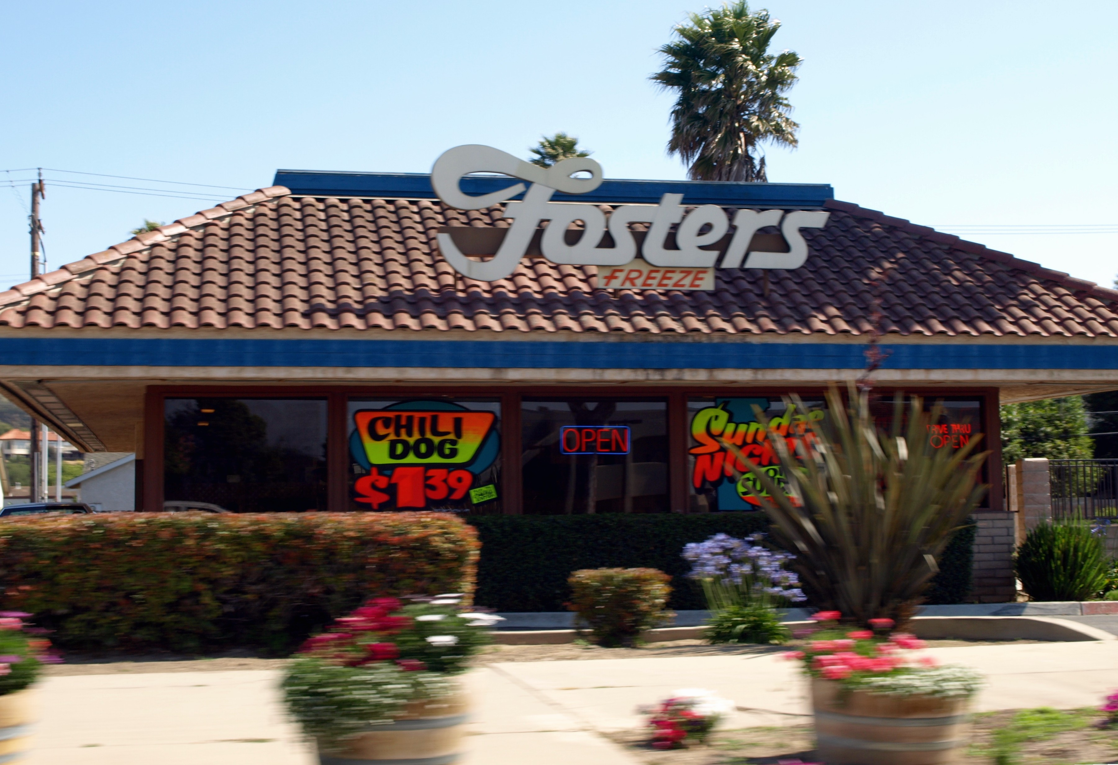 Street view of a Fosters Freeze restaurant at 1120 East Ocean Avenue in Lompoc, California. View from the eastbound lane of East Ocean Avenue/CA SR 246/CA SR 1, looking south. This photograph was taken with an Olympus E-510 DSLR camera and edited using ArcSoft Photostudio 5.5